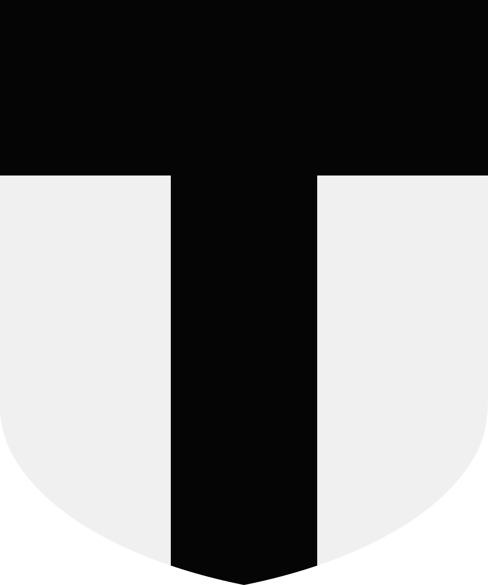 Sabadini fiamily shield